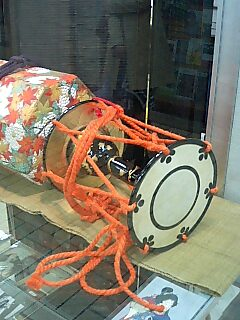 A picture of a Japanese Tsuzumi Drum taken with a Japanese mobile phone. first uploaded to en Wikipedia by Kogejoe on 2008-01-20 T17:23 as "self-made".